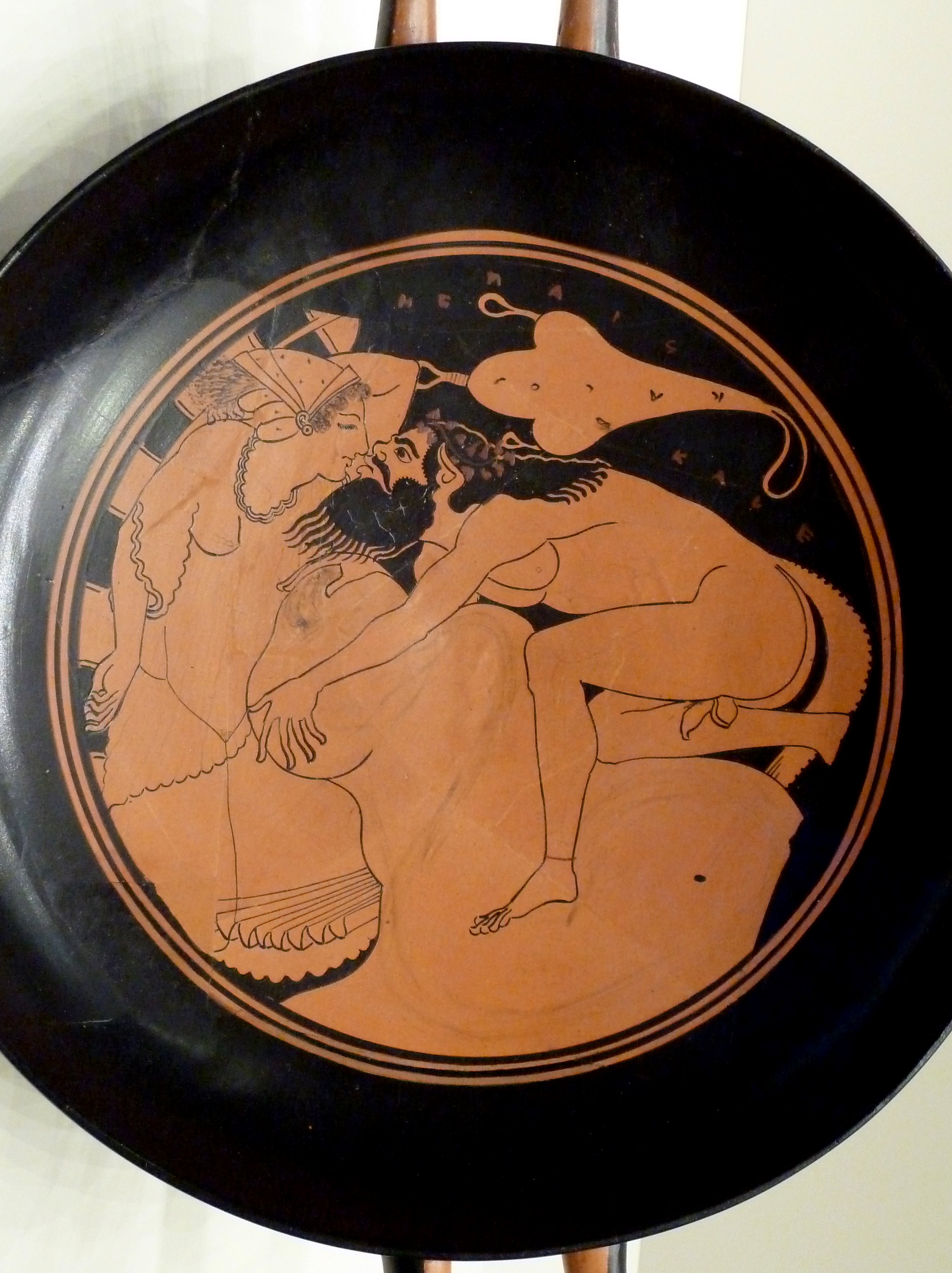 Kylix (drinking cup) with a Silenus and Nymph (Greek, Athens, 500-490 BC), by Onesimos. The Silenus is thinking, "The girl is lovely."